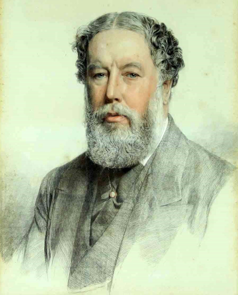 William Lethbridge of Courtlands House now Lympstone Manor